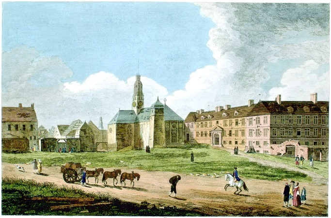 A View of the Jesuits College and Church